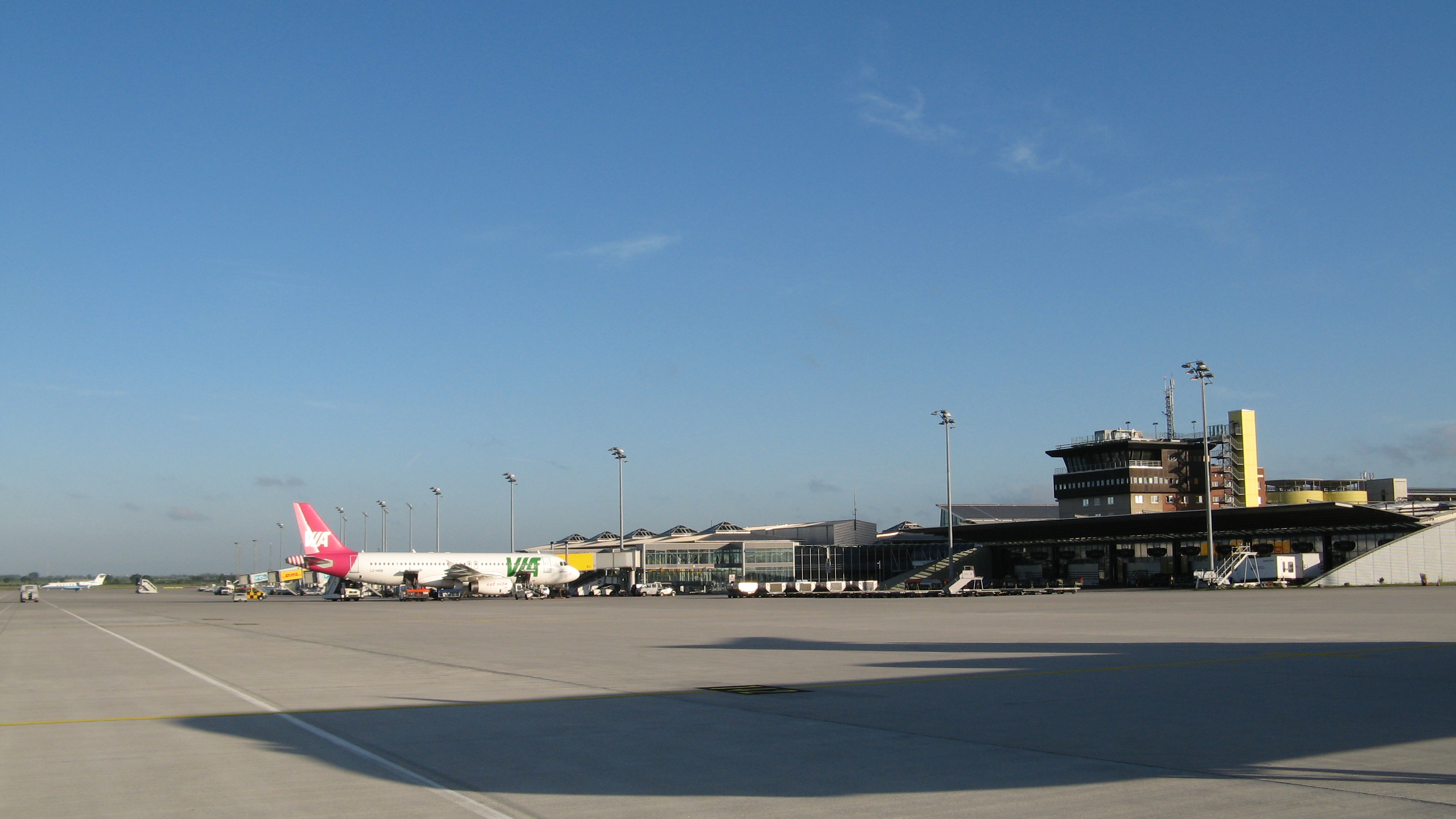 Airport ramp of Leipzig/Halle Airport